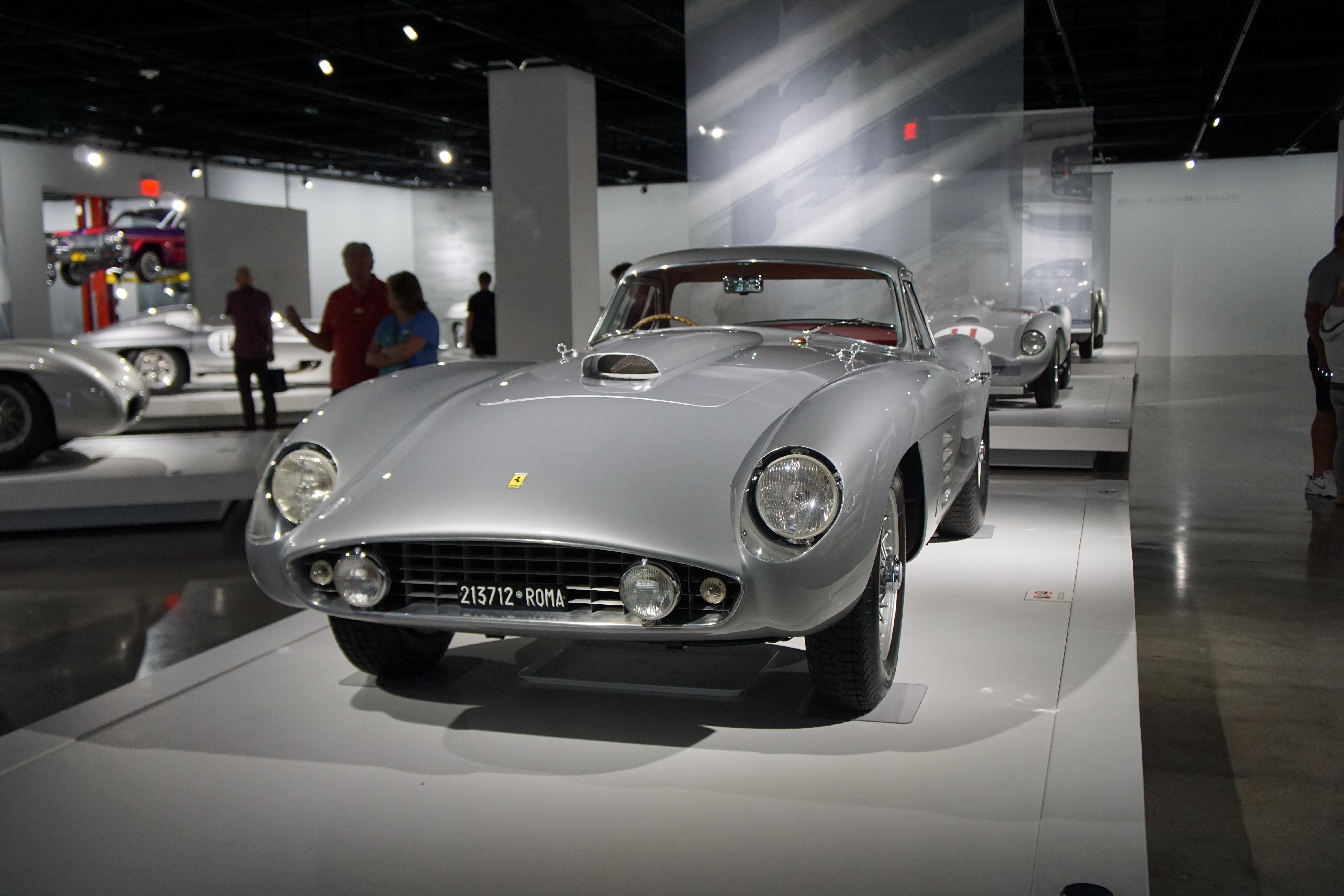 Petersen Automobile Museum Wilshire Blvd Los Angeles California